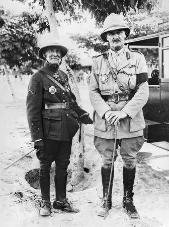 General Sir Edmund Allenby (right) and General Bailloud in Judea.